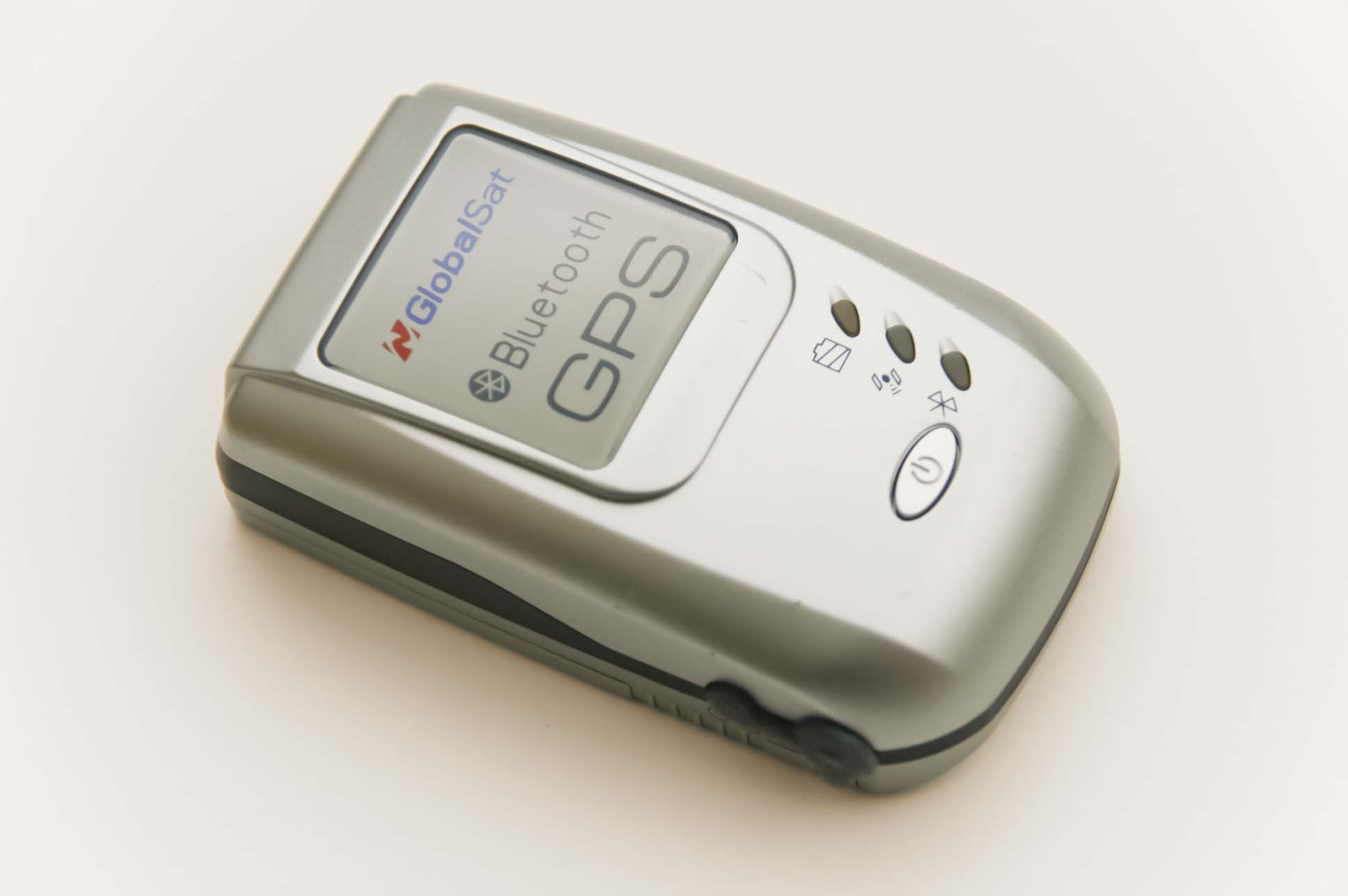 Globalsat GSP Bluetooth receiver